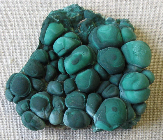 Botryoidal malachite formations from Dodington mine, Bridgwater, Somerset, UK. Photograph taken at the Natural History Museum, London.